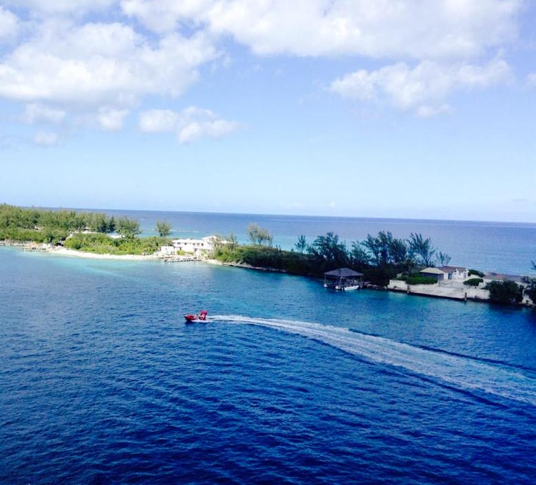 This is a photo that shows the beautiful view of one of the island.